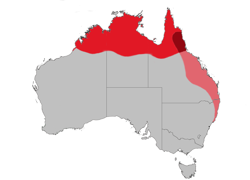 Range of the Red-backed Fairy-wren as described by Schodde, Richard (1982) in The fairy-wrens: a monograph of the Maluridae. p. 104. Melbourne: Lansdowne Editions. ISBN 0-7018-1051-3.